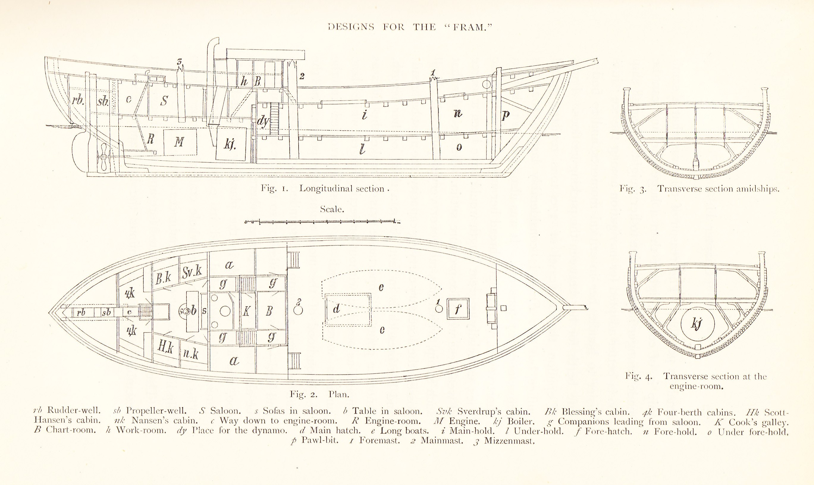 Designs for Nansen's Arctic exploration vessel Fram